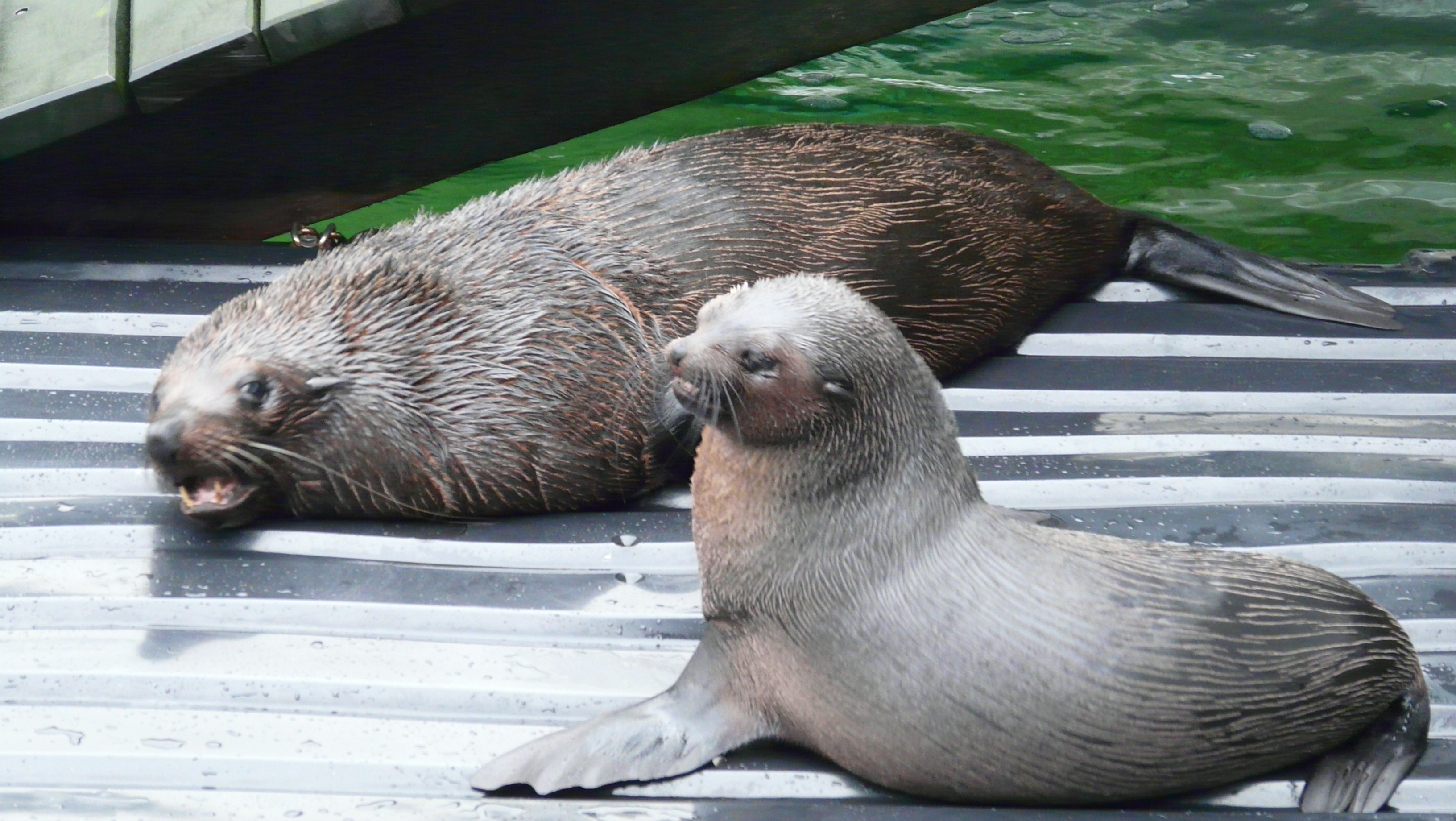 Sydney Aquarium Seal Sanctuary